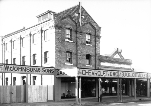 F. W. Johnson & Sons City Motor Works, Ipswich, ca. 1930, formerly the Flour Mill